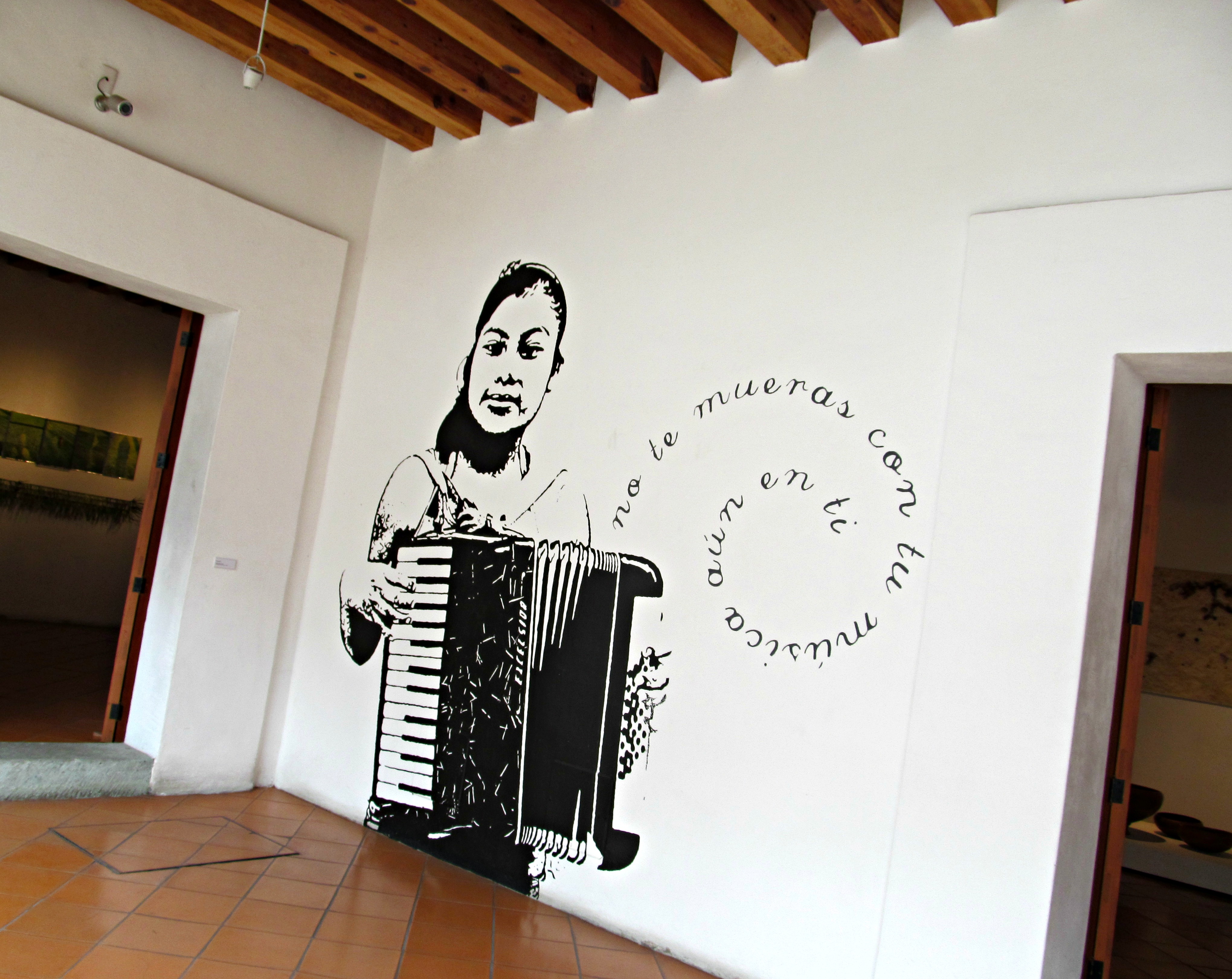 Girl of the accordion, Oaxaca